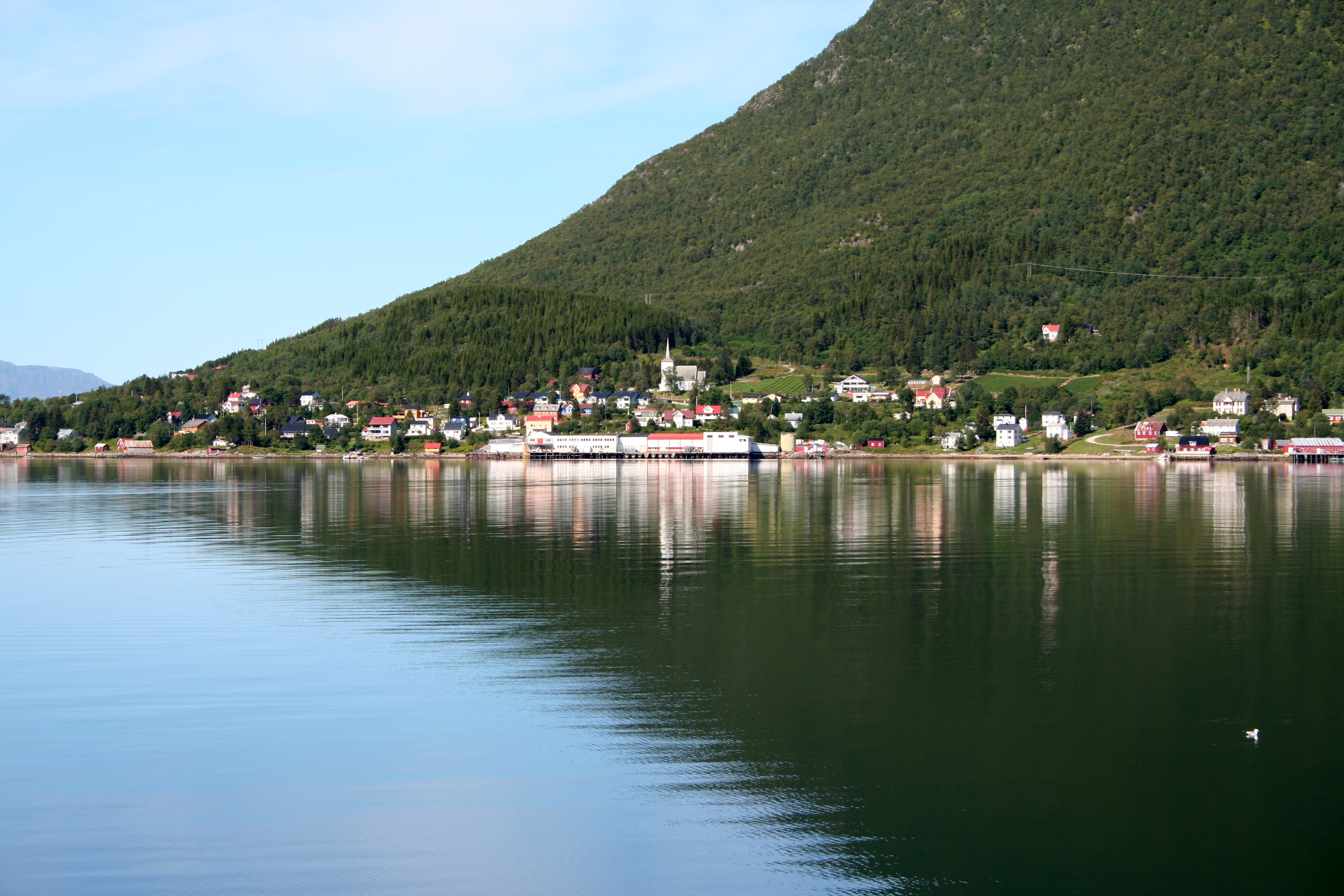 Sigerfjord, Norway. This picture was taken by me on 5 August 2006.